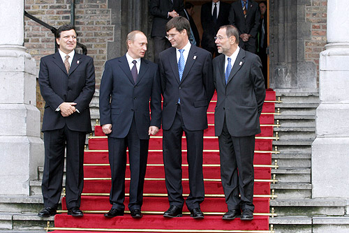 THE HAGUE, THE NETHERLANDS. At the Russia-European Union summit. With head of the EU Comission Jose Manuel Durao Barroso (left), Dutch Prime Minister Jan Peter Balkenende and EU High Representative for the Common Foreign and Security Policy Javier Solana.